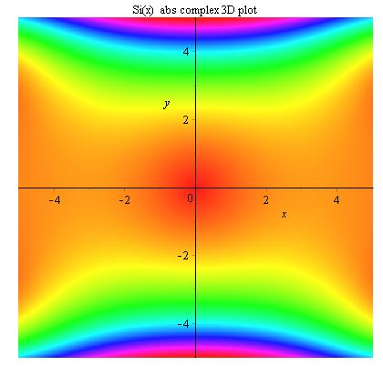 Si(x) abs complex density plot